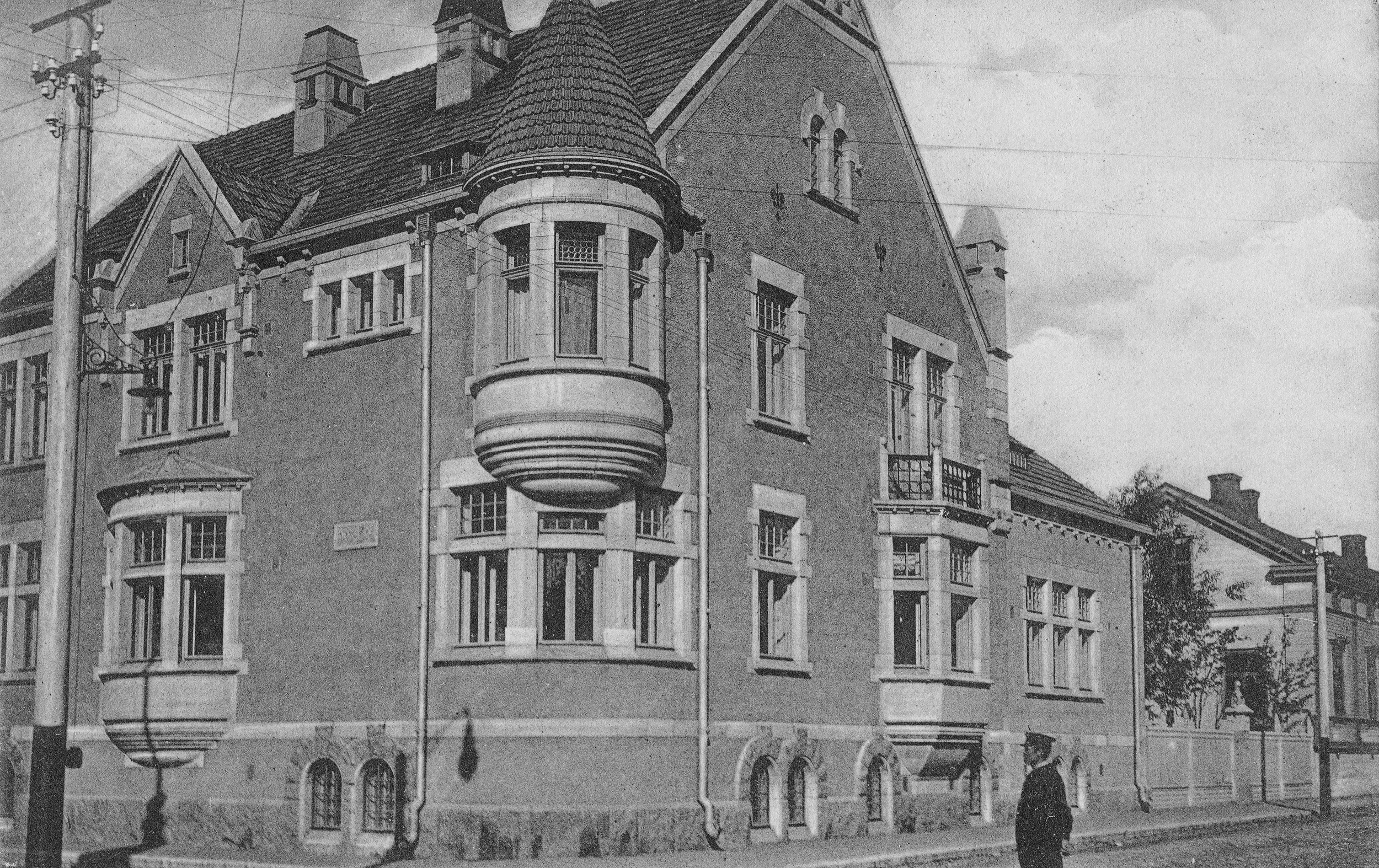 Weckmann's House in Oulu, Finland. The house was built in 1903 and designed by architect Karl Hård af Segerstad. The house was totally altered 1935-37.